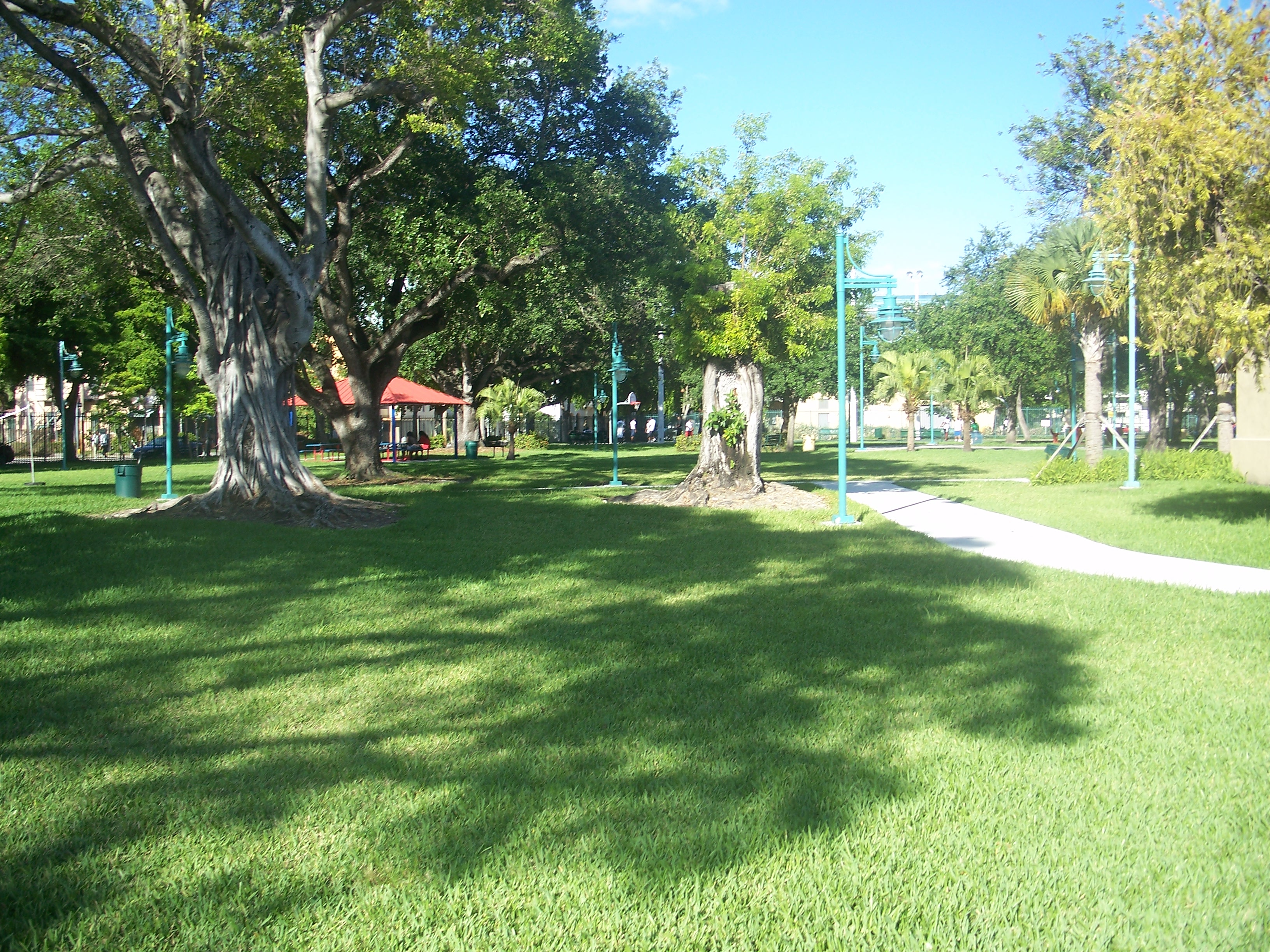 Miami Beach, Florida: Lummus Park Historic District